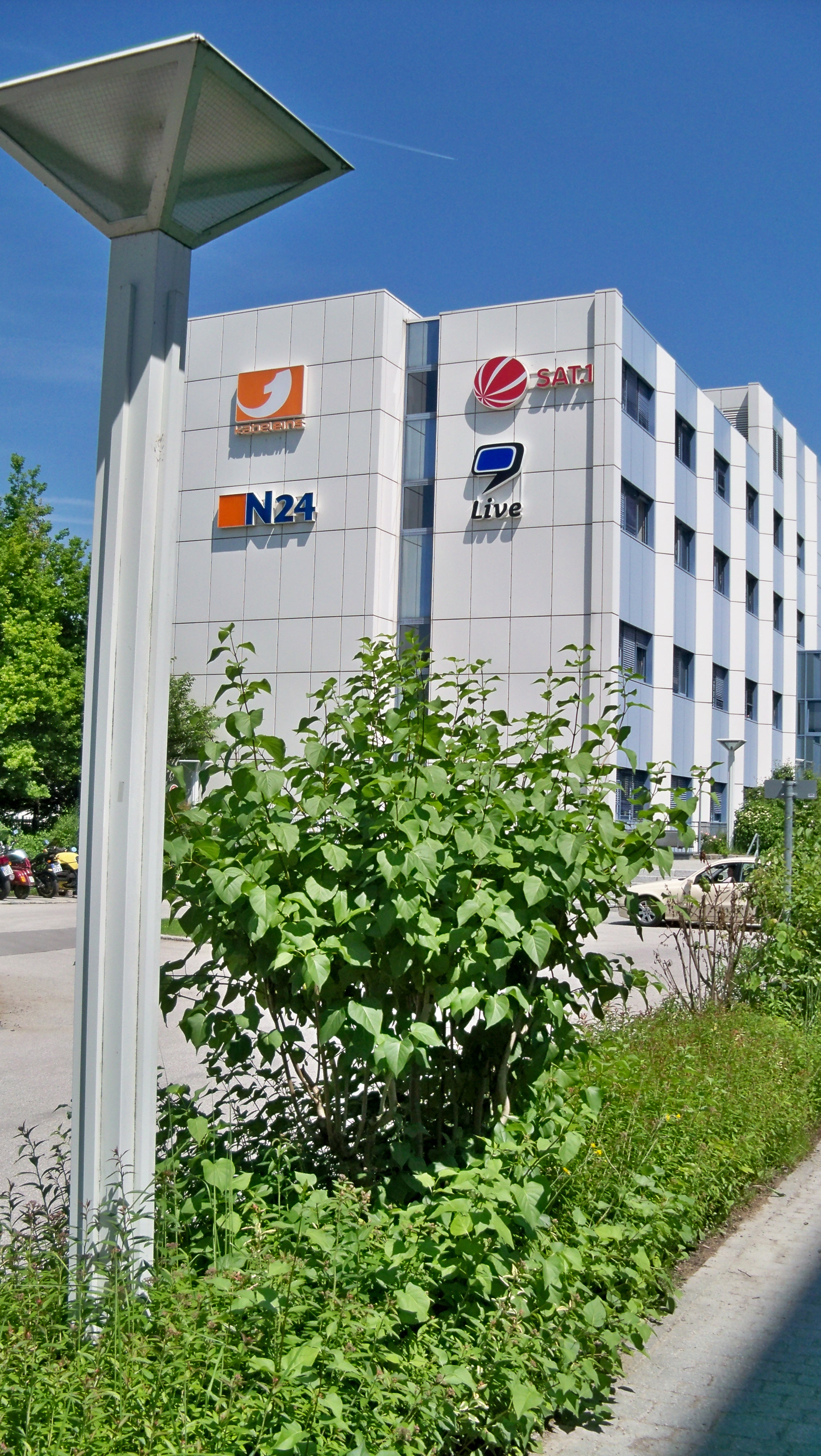 ProSiebenSat.1 TV Deutschland (detail) in Unterföhring, Germany.